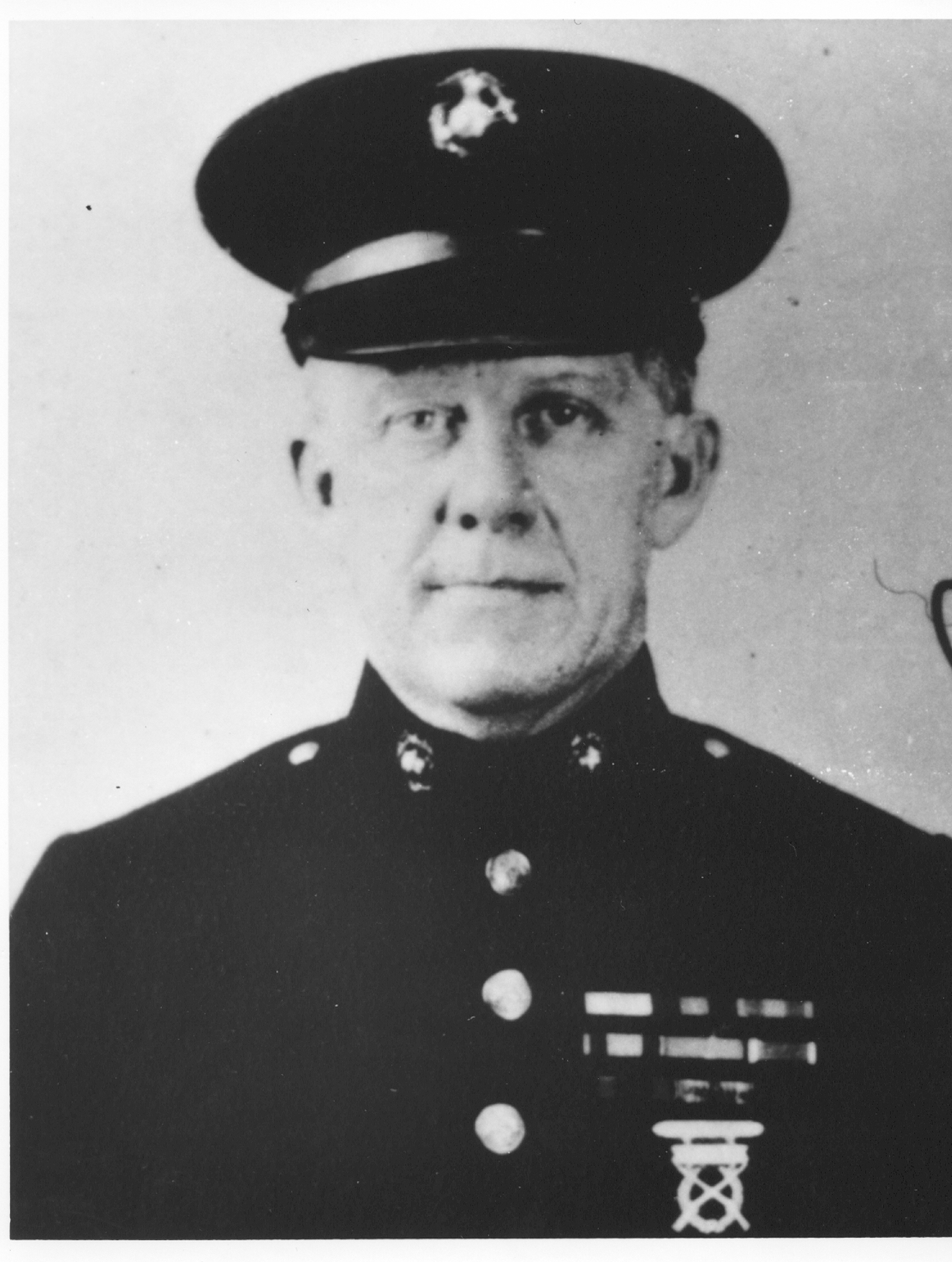 An official service portrait of Charles Robert Francis